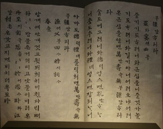 Kanghosasisa, written by Yun Seondo